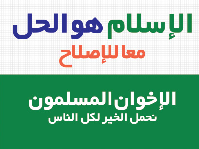 (Islam_Is_The_Solution.jpg) arabic logo to muslim brotherhood organization